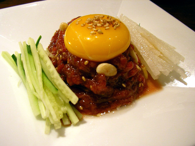 Yuk hoe, once Korean royal cuisine made with raw marinated beef and seasonings.